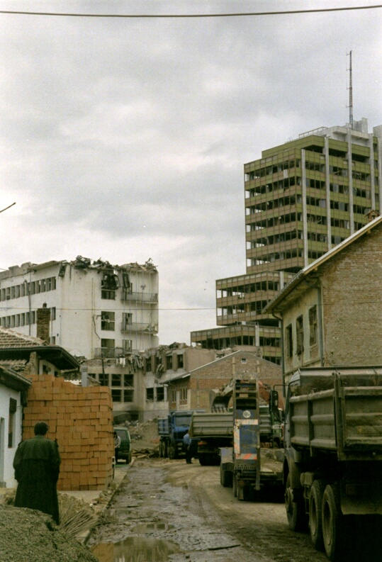 Kosovo communications & bank building, 2000. The communications building has now been torn down and the bank building (the taller of the two) was renovated in 2004, and now serves as Kosovo Government Building.